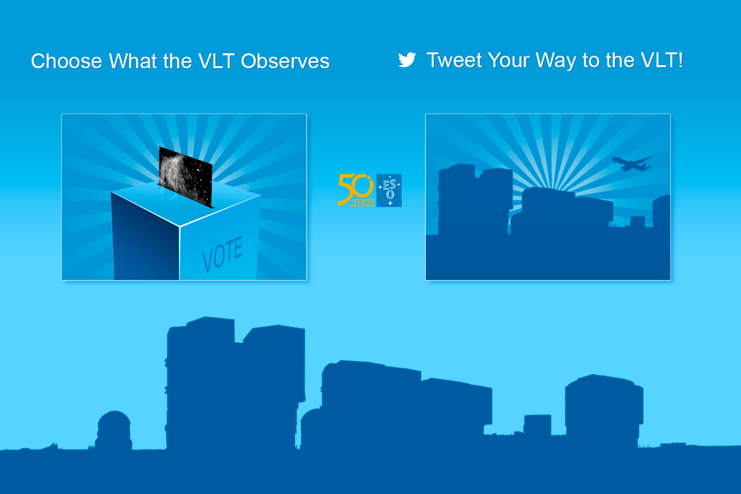 To celebrate its 50th anniversary in 2012 ESO is organising two competitions: Choose What the VLT Observes and Tweet Your Way to the VLT! The first allows the public to pick an object to be observed with the VLT and the second gives one lucky person the chance to visit ESO’s Paranal Observatory and help with the observations.